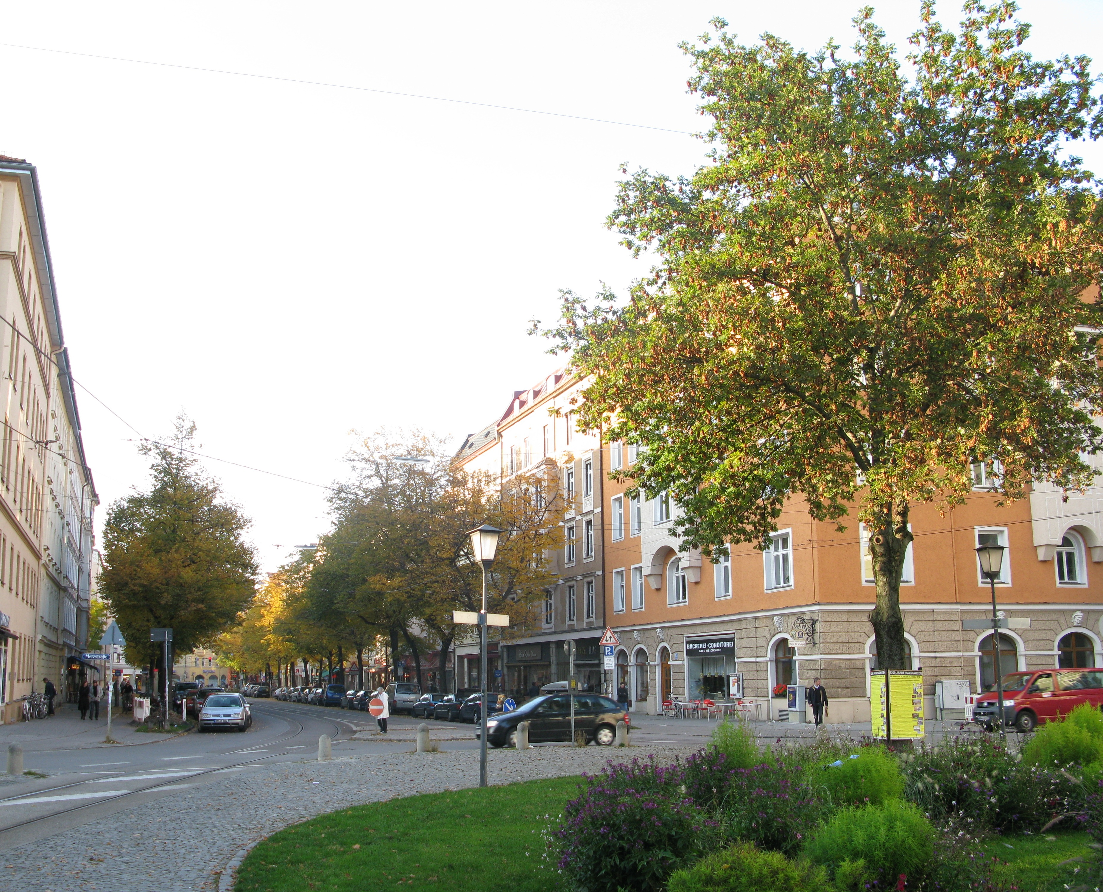 The end of the Bordeauxplatz facing the Wörthstraße in the east of Munich (district: Haidhausen).